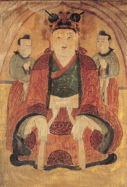 This is a portrait of a smallpox goddess with two retainers, from the late Joseon era.